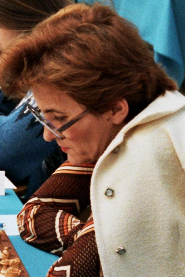 Milunka Lazarevic (Yugoslavia), Chess Olympiad 1982 in Luzern, Photographer Gerhard Hund.